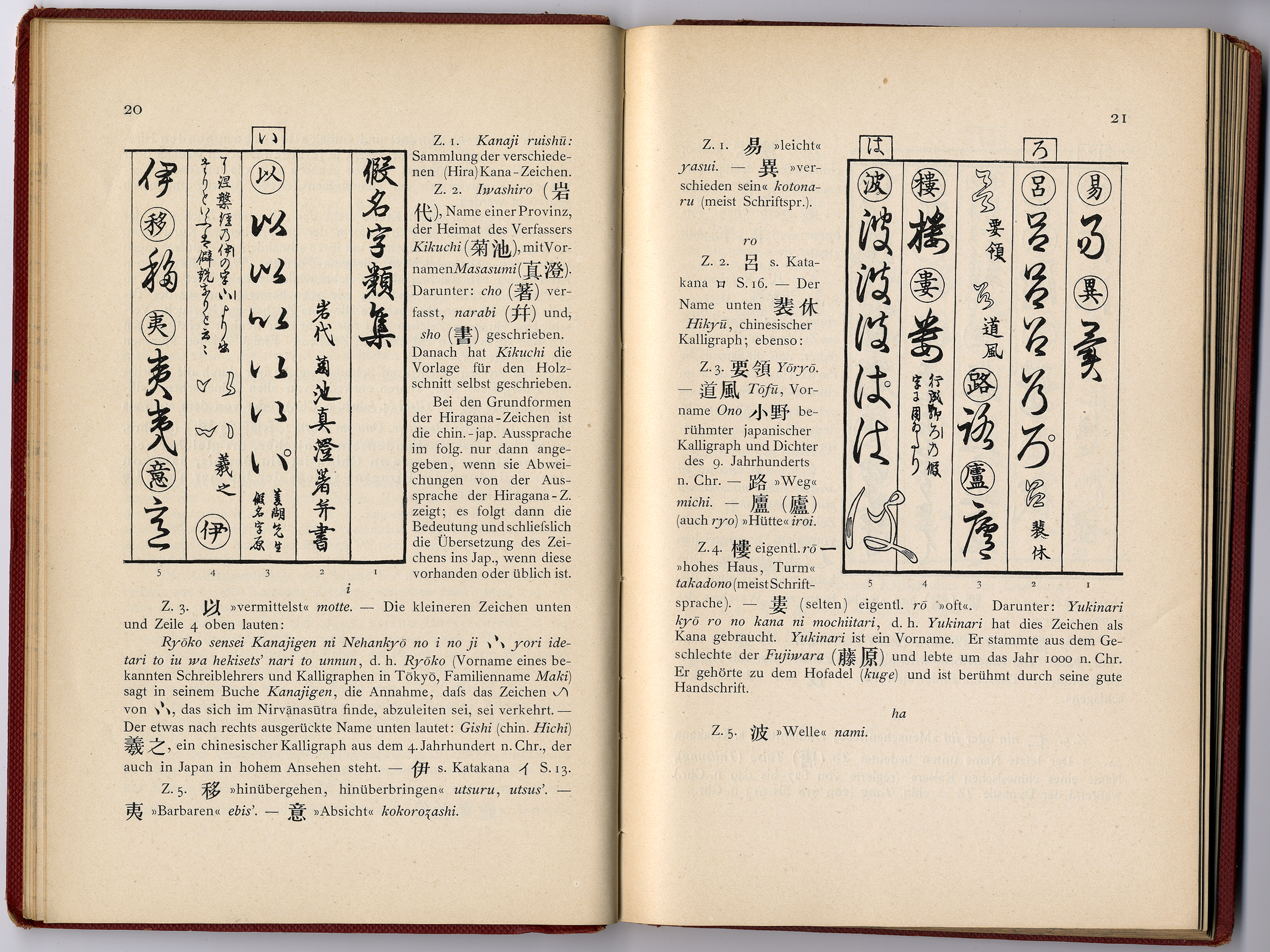 Page from "Einführung in die japanische Schrift" by Prof. Dr. Rudolf Lange, published in Stuttgart & Berlin in 1896. Lange was one of the foreigners who contributed to the modernization of Meiji-Japan.